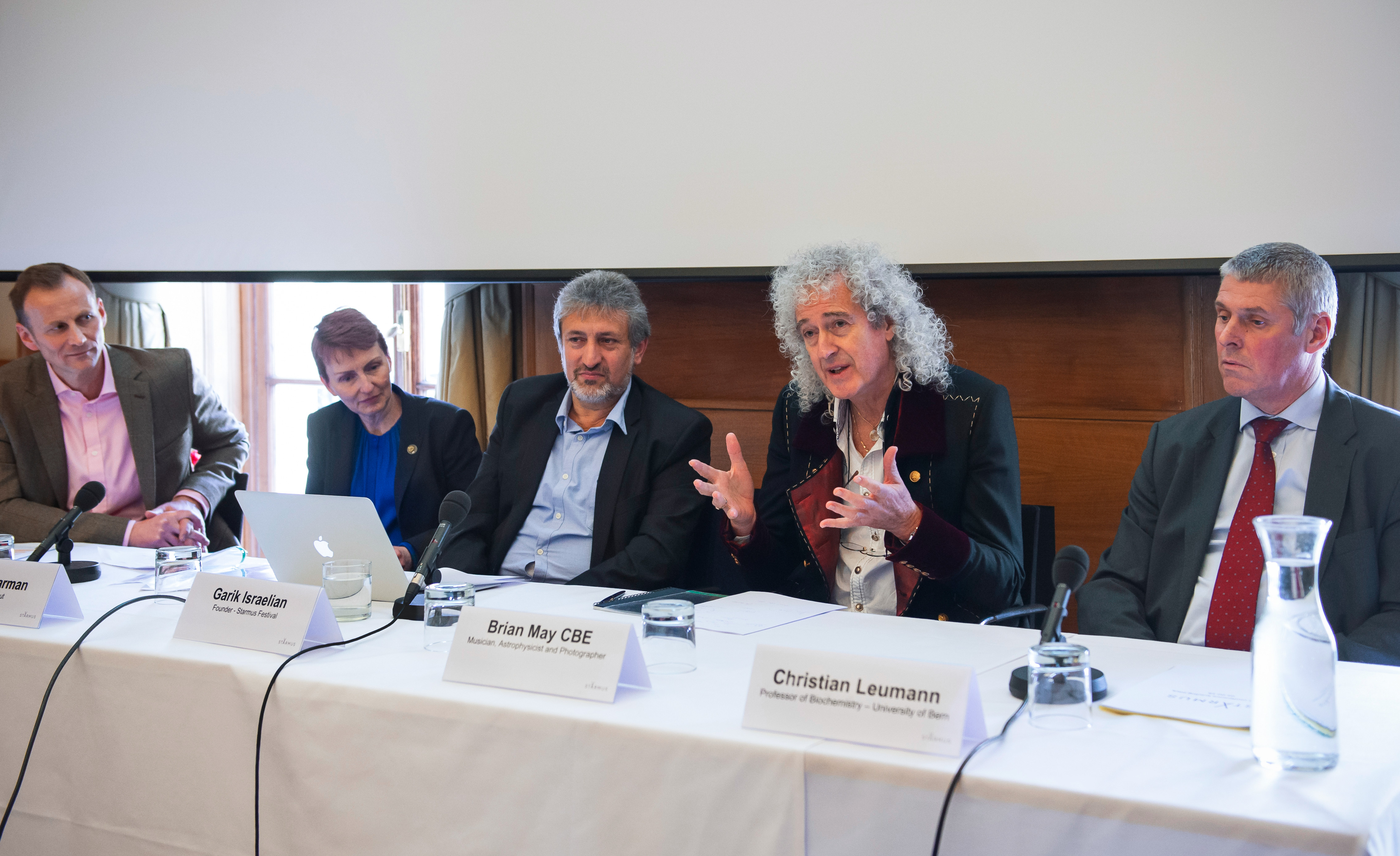 The Starmus Festival is a combination of science, art and music that has featured presentations from astronauts, cosmonauts, Nobel Prize winners and other prominent figures from science, culture, the arts and music. ESO is a partner organisation of Starmus. The fifth festival, Starmus V will take place in Bern, Switzerland, from 24–29 June 2019. This picture was taken during the press conference announcing the festival in February 2018.